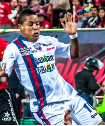 Ecuadorian player Michael Arroyo